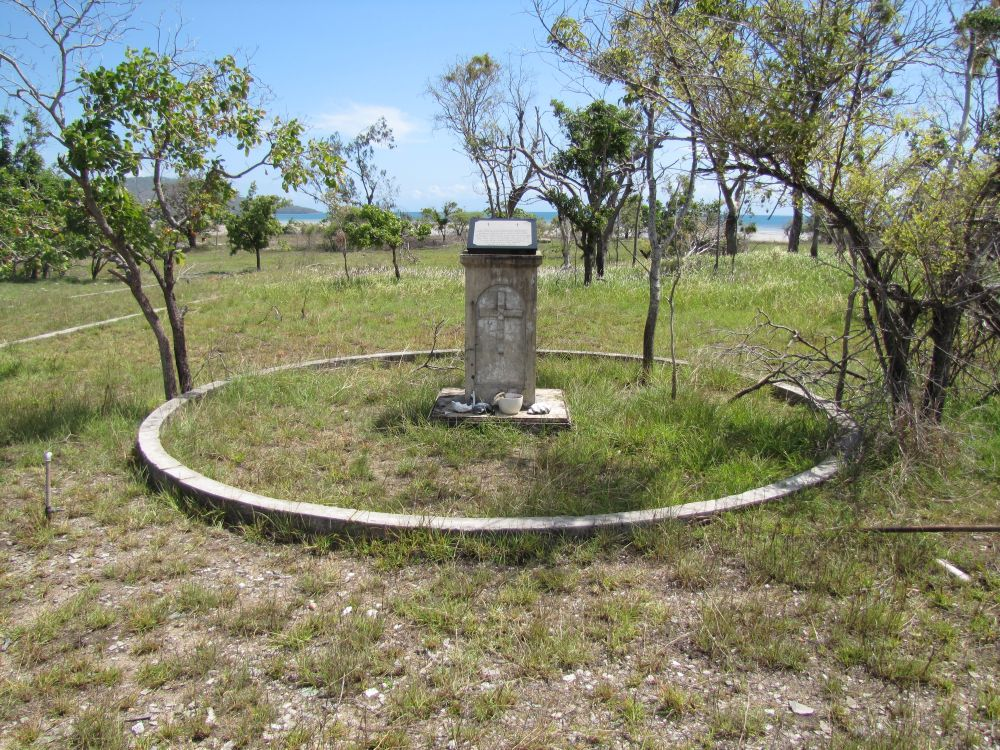 Plinth behind church from N (2011)